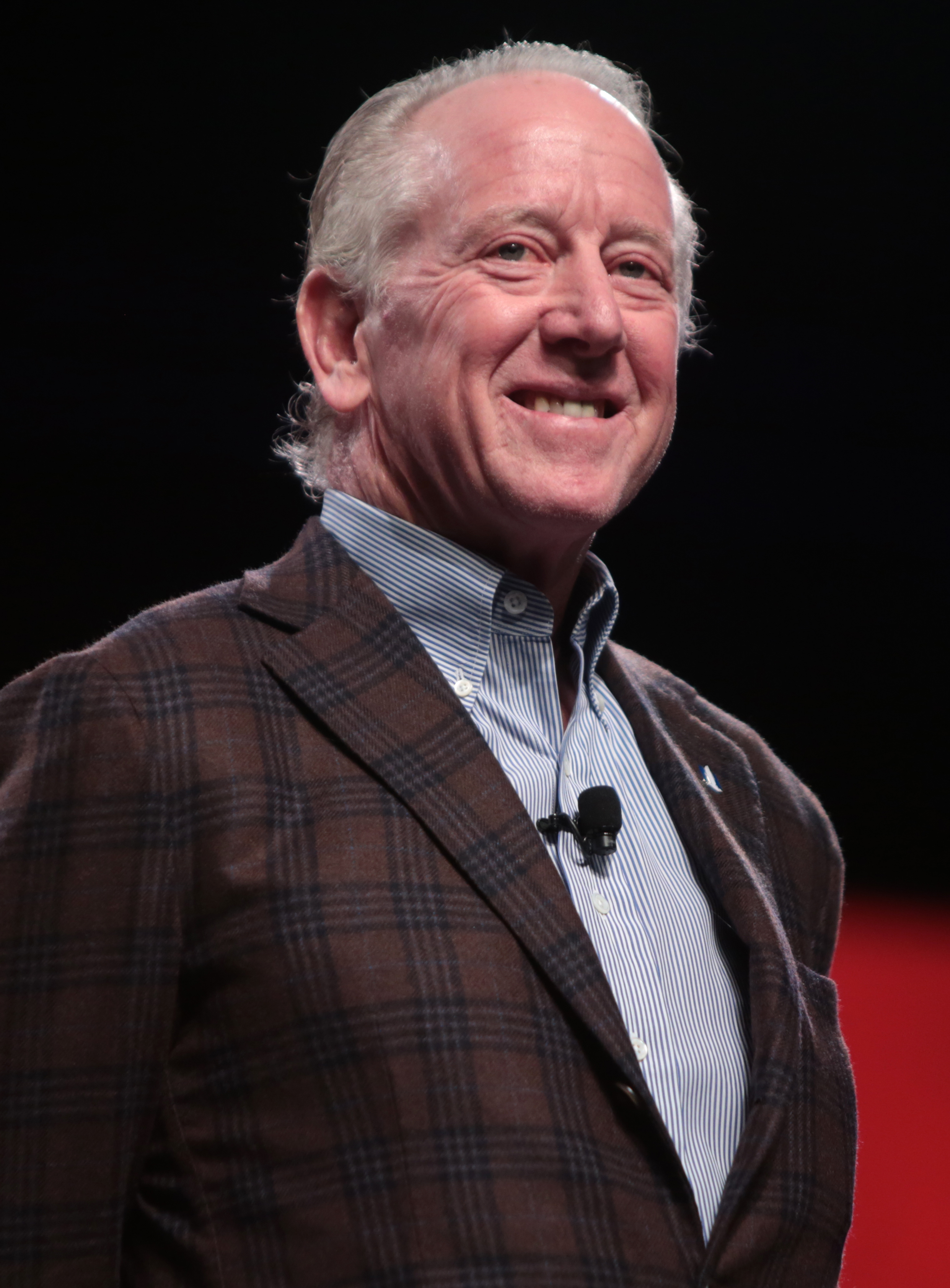 Archie Manning speaking at an event in Phoenix, Arizona.